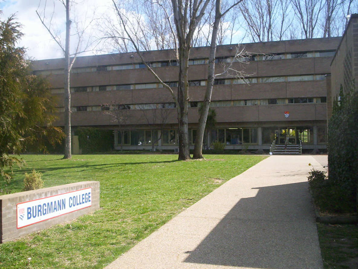 Burgmann College at the ANU. I took the photo. Cfitzart 23:50, 2 September 2005 (UTC)